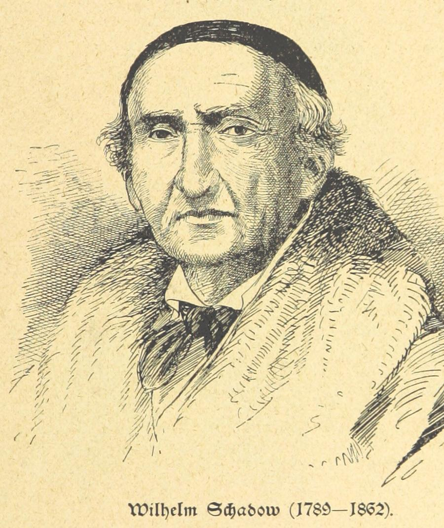 Wilhelm Schadow Image taken from: Title: "Hundert Jahre in Wort und Bild. Eine Kulturgeschichte des XIX. Jahrhunderts herausgegeben von Dr. S. Stefan. Mit 800 Text-Illustrationen, etc" Author: STEFAN, S. Shelfmark: "British Library HMNTS 9008.dd.15." Page: 505 Place of Publishing: Berlin Date of Publishing: 1899 Issuance: monographic Identifier: 003487605 Explore: Find this item in the British Library catalogue, 'Explore'. Download the PDF for this book (volume: 0) Image found on book scan 505 (NB not necessarily a page number) Download the OCR-derived text for this volume: (plain text) or (json) Click here to see all the illustrations in this book and click here to browse other illustrations published in books in the same year.